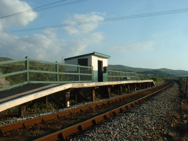 Llandecwyn Station, near to Bryn Bwbach, Gwynedd, Great Britain. The extremely short platform allows access to only one door of any trains which do call. Most trains call only on request.